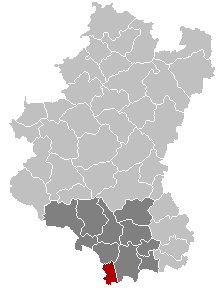 Map, municipality belgium Rouvroy